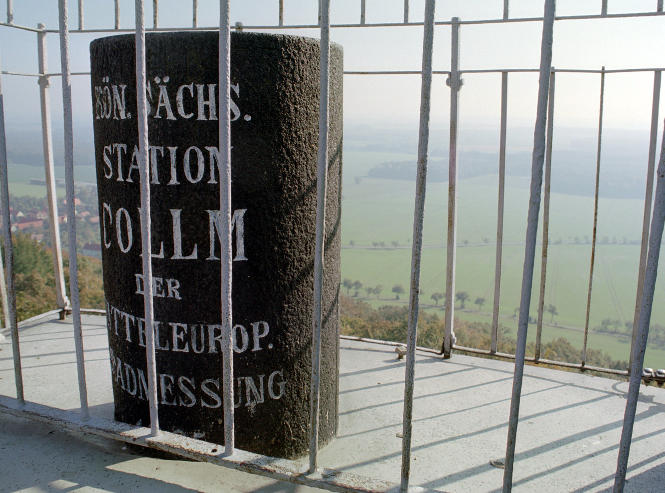 Mountain Collm in Saxony: view from the tower together with an old trigonometrical point from the middle-european surveying